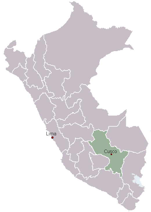 Location of Aircraft accident LANSA Flight 502 in Peru (Map)